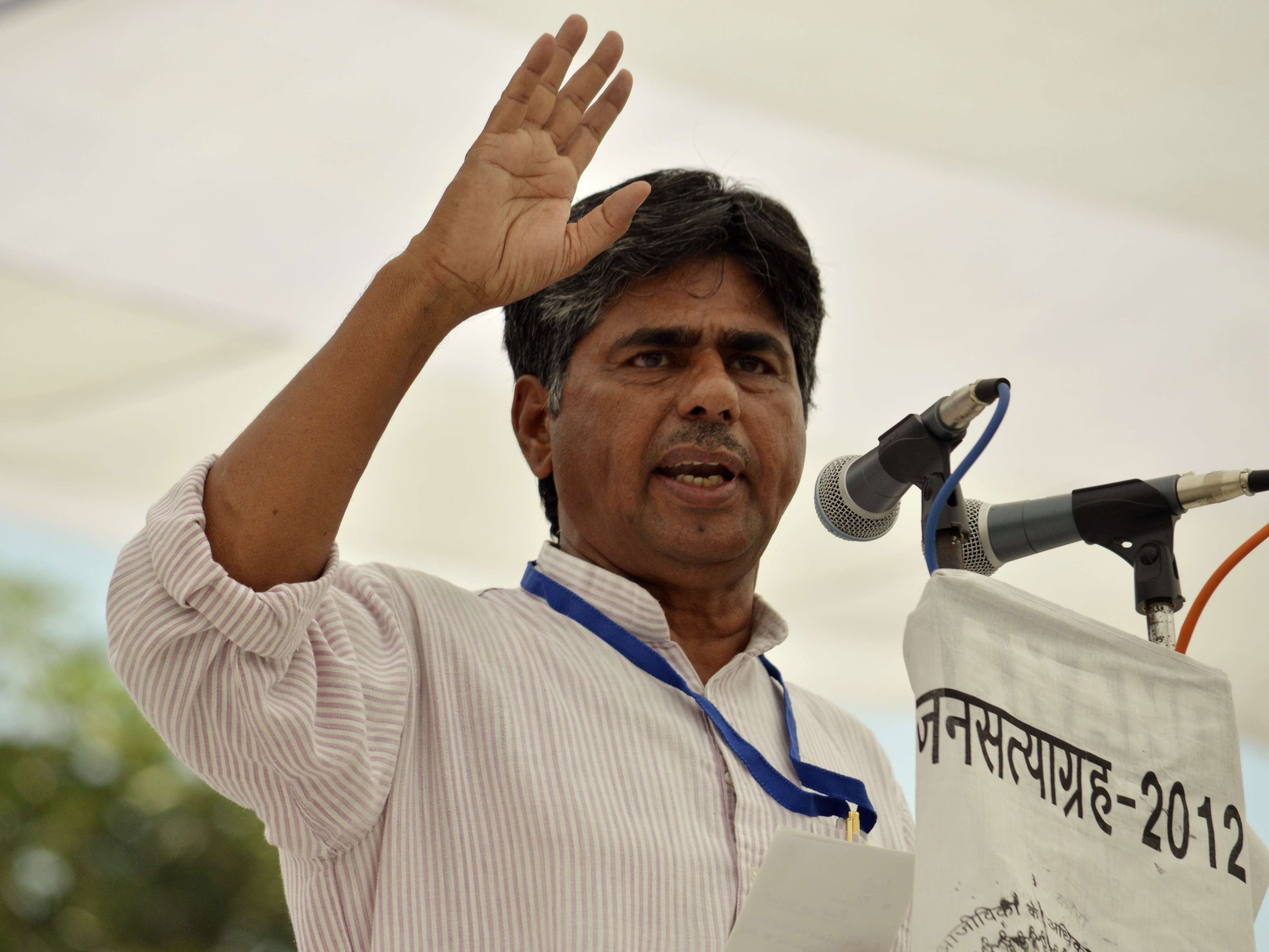 Rajagopal P.V., Gwalior, at the beginning of Jan Satyagraha.